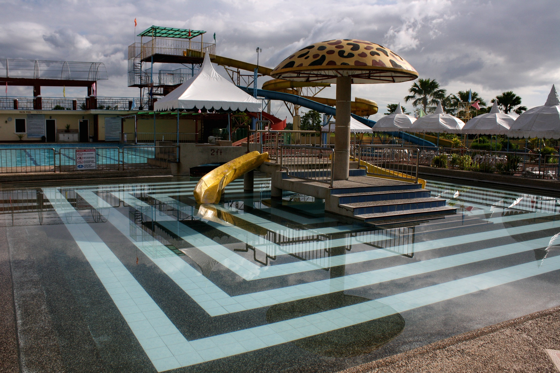 An acclaimed resort and business center in Nabua, Camarines Sur, Macagang provides a cool and relaxing experience.